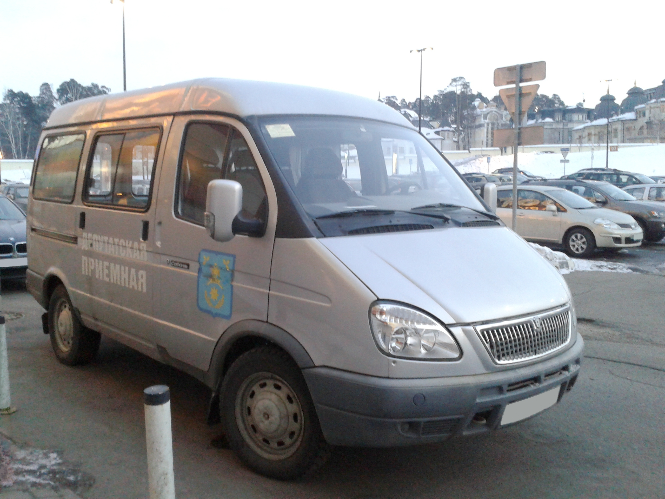 GAZ-22171 "Sobol" as parliamentary reception. Gas-fueled auto.